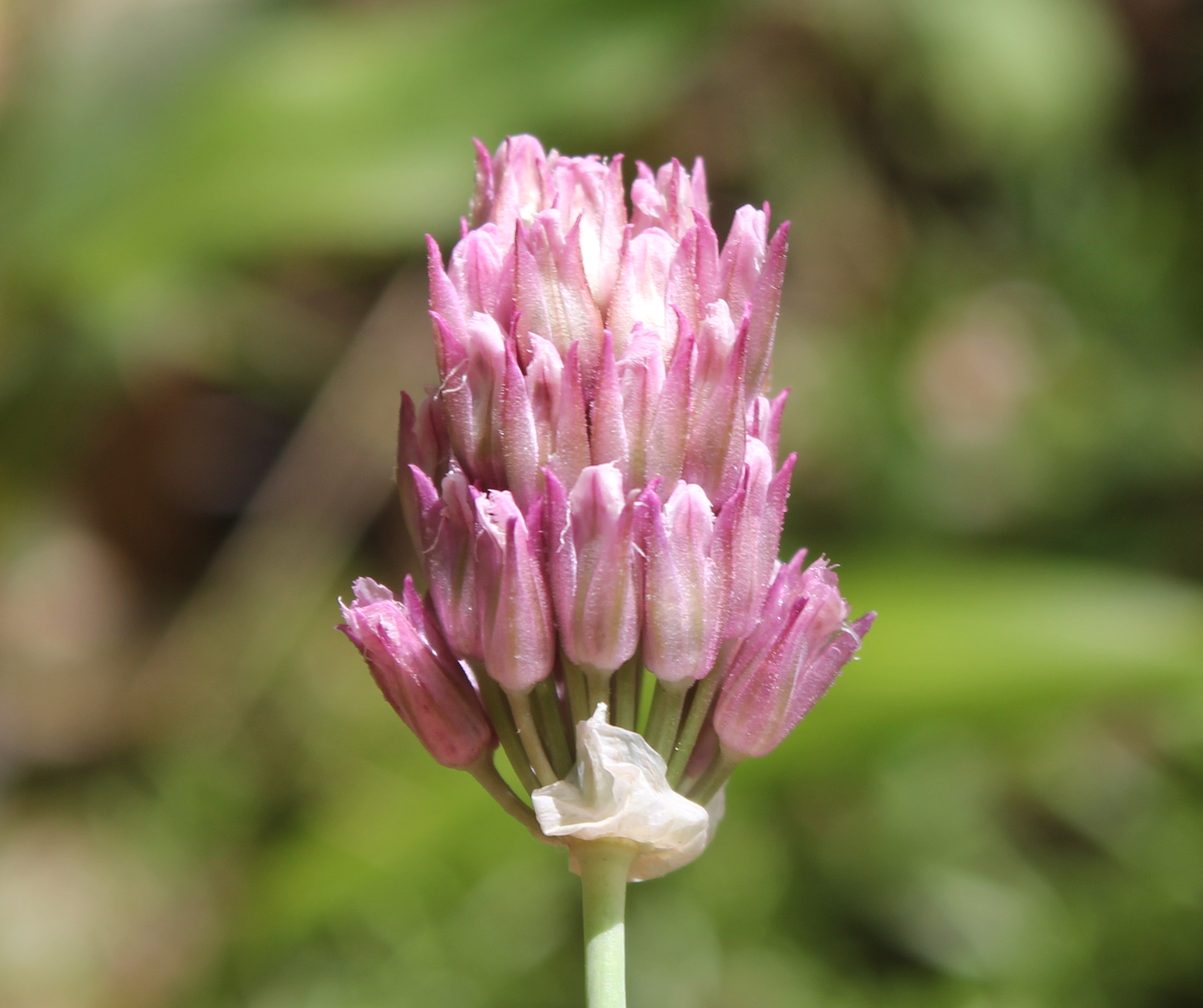 Allium jubatum